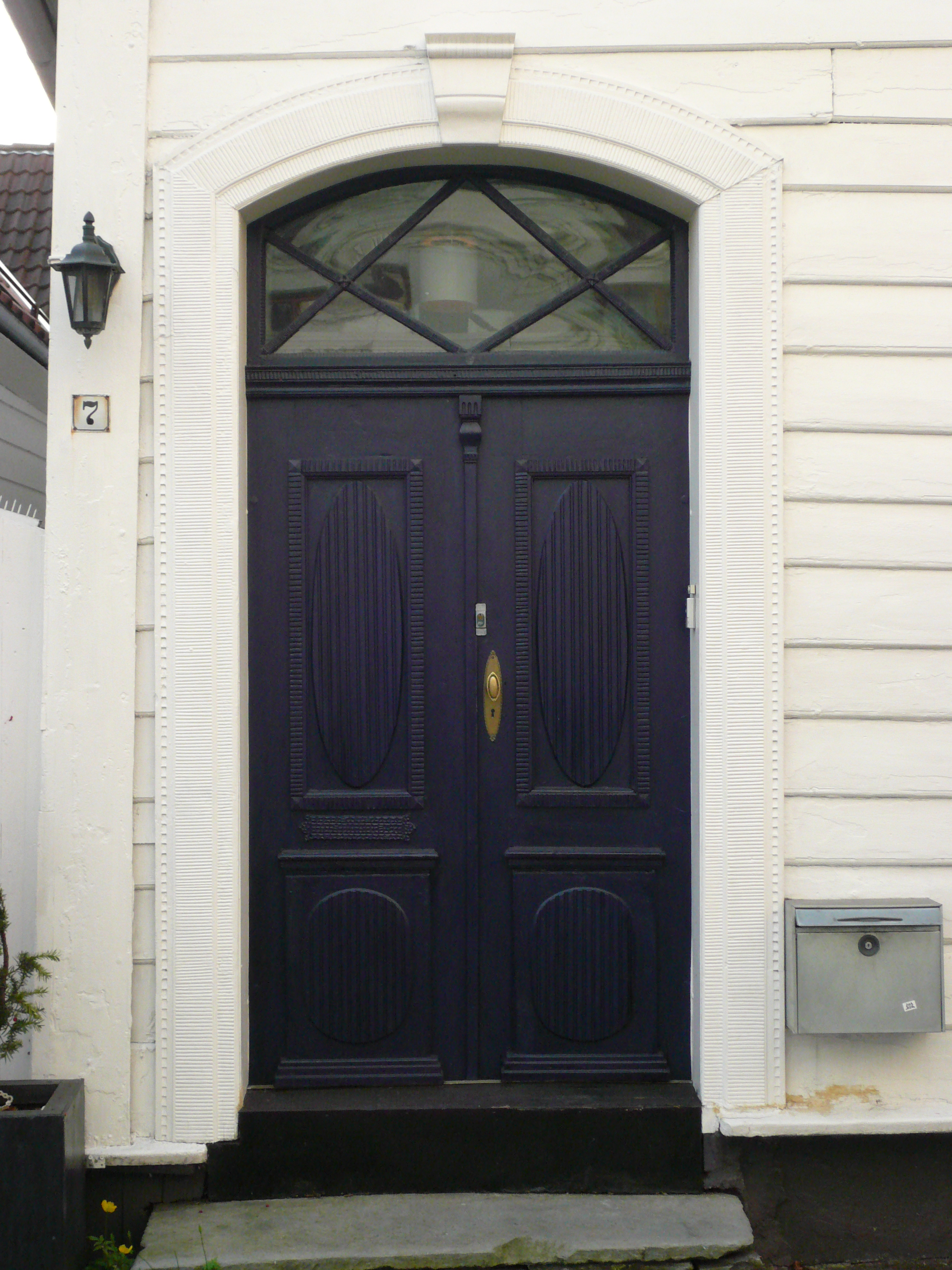 Door at Lille Øvregaten 7, Bergen, Norway